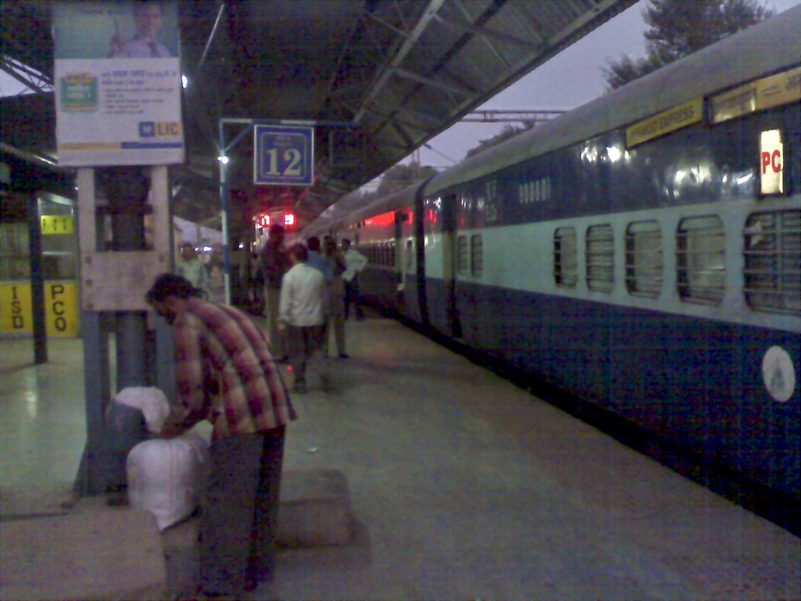 Other clear view of Khurai railway station